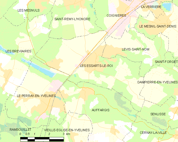 Map of French municipality Les Essarts-le-Roi